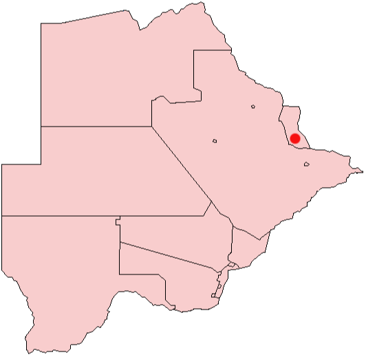 Francistown, Botswana Location Map; created with the GIMP. Made by User:Acntx. 22:51, 16 December 2005 Acntx 532x519 (5462 bytes)